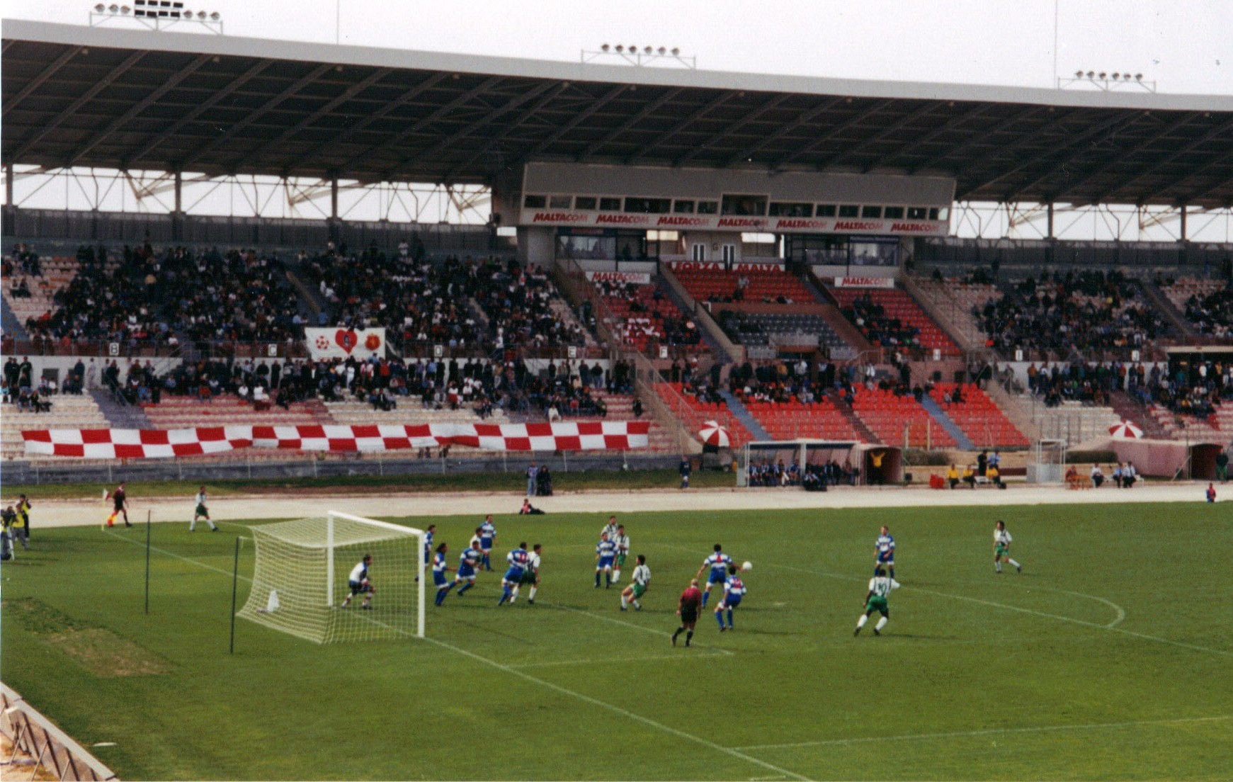 Image from the 2000-04-02 Maltese premier league match between Floriana and Pieta Hotspurs